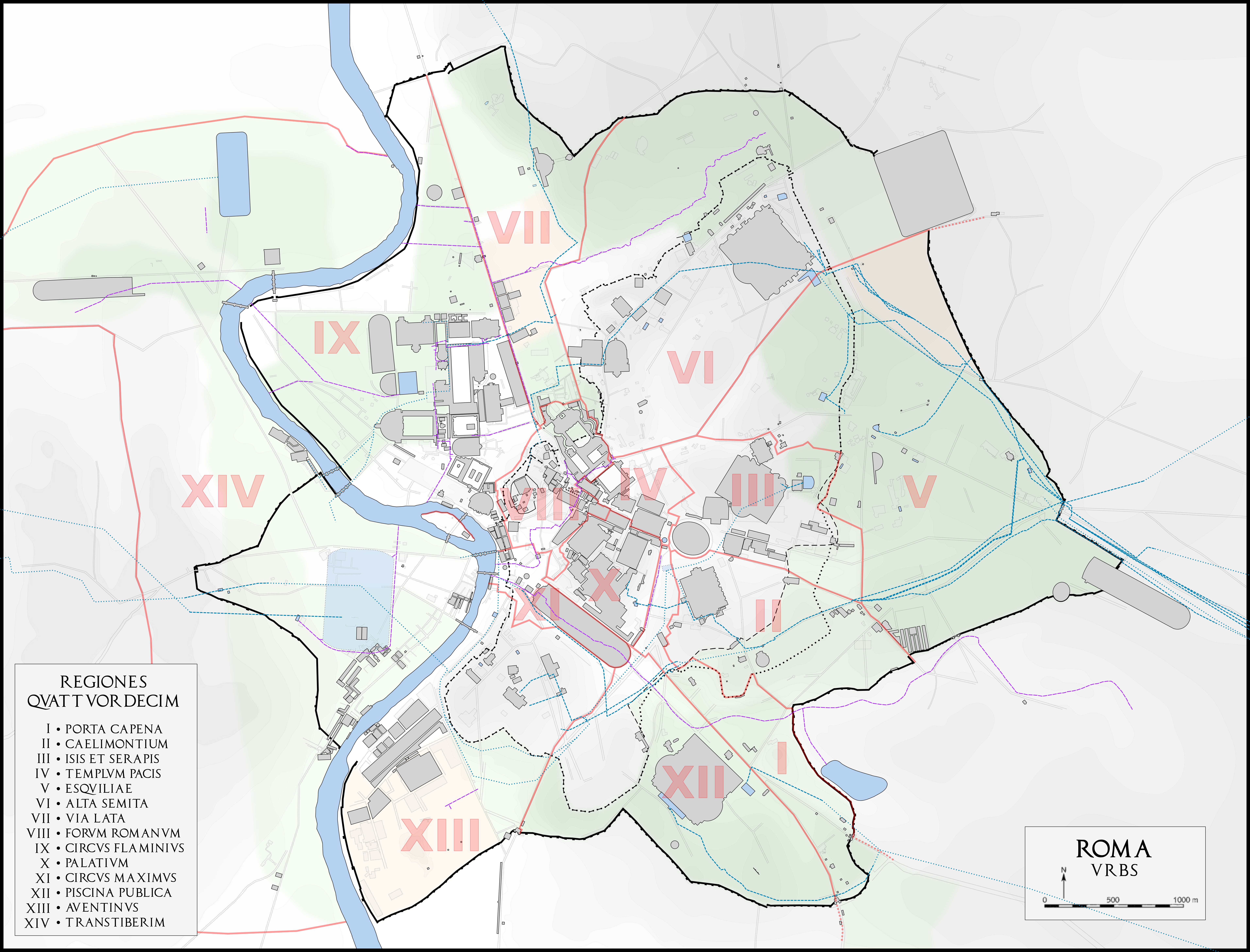 Map of ancient Rome with the main monuments built from the foundation of the city until the sixth century AD. Map based after Rodolfo Lanciani, Forma Urbis, completed and corrected with the most recent archaeological proposals and discoveries.